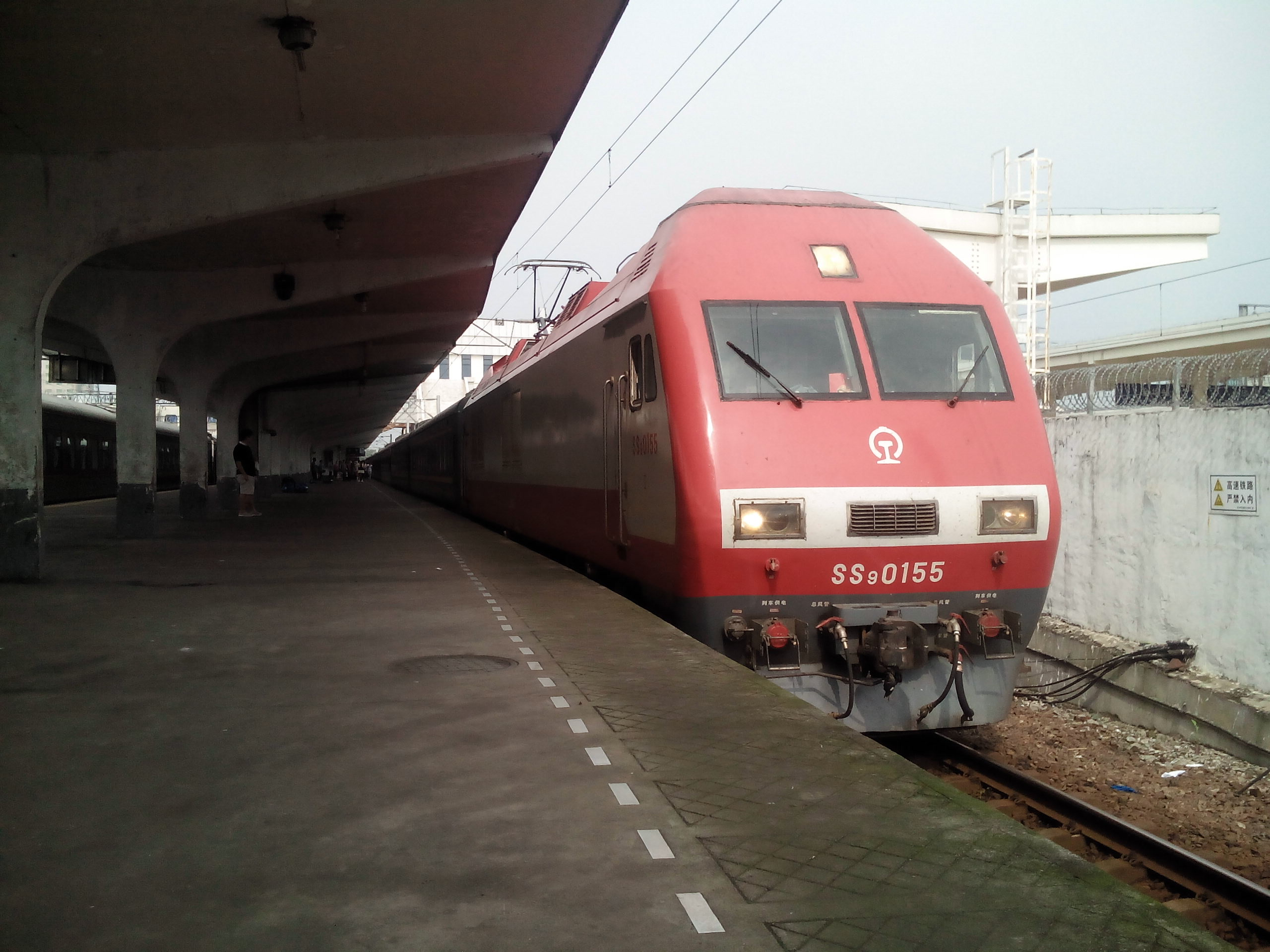 201507 SS9-0155 hauls Z100 at Jinhua Station